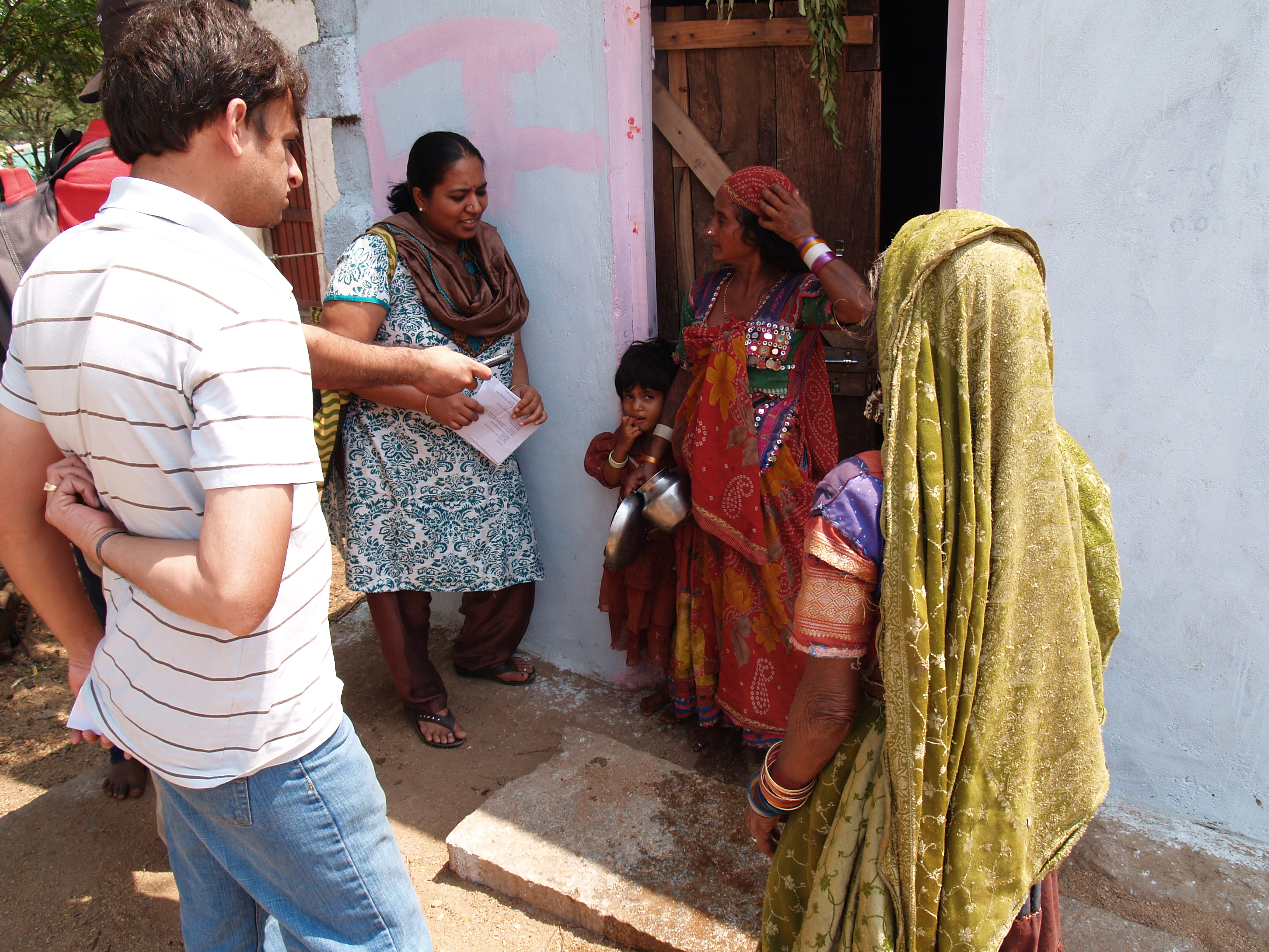 Snap taken when Singing skylarks Volunteers were counseling Kere thanda village people